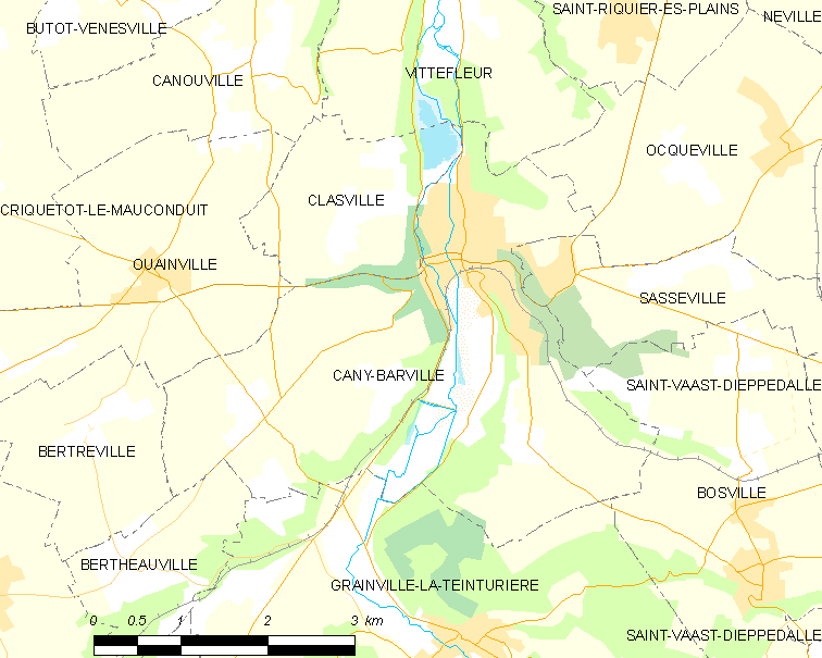 Map of French municipality Cany-Barville